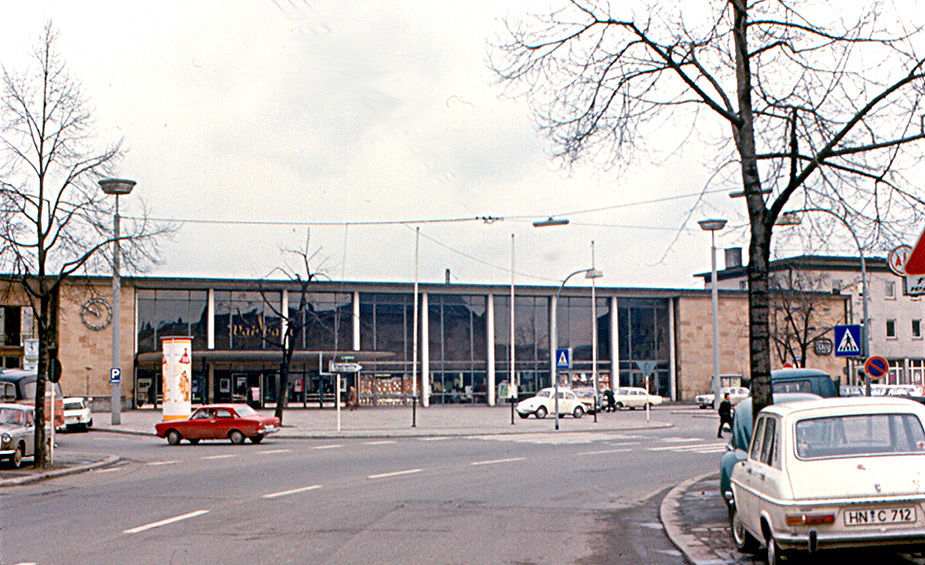 Heilbronn main station.Original description:Heilbronn station was my most important place in the city for the first six months of my time at Badenerhof Kaserne. Then I took delivery of my new Volkswagen. The station was completed in 1958. It had the status of a Hauptbahnhof (main station), because there were a few other stations in Heilbronn. I believe they were closed, but now there are a number of "S-Bahn" stations for the new / rebuilt interurban line that runs from Karlsruhe of Öhringen. I suppose that they legitimately make this a Hauptbahnhof again.